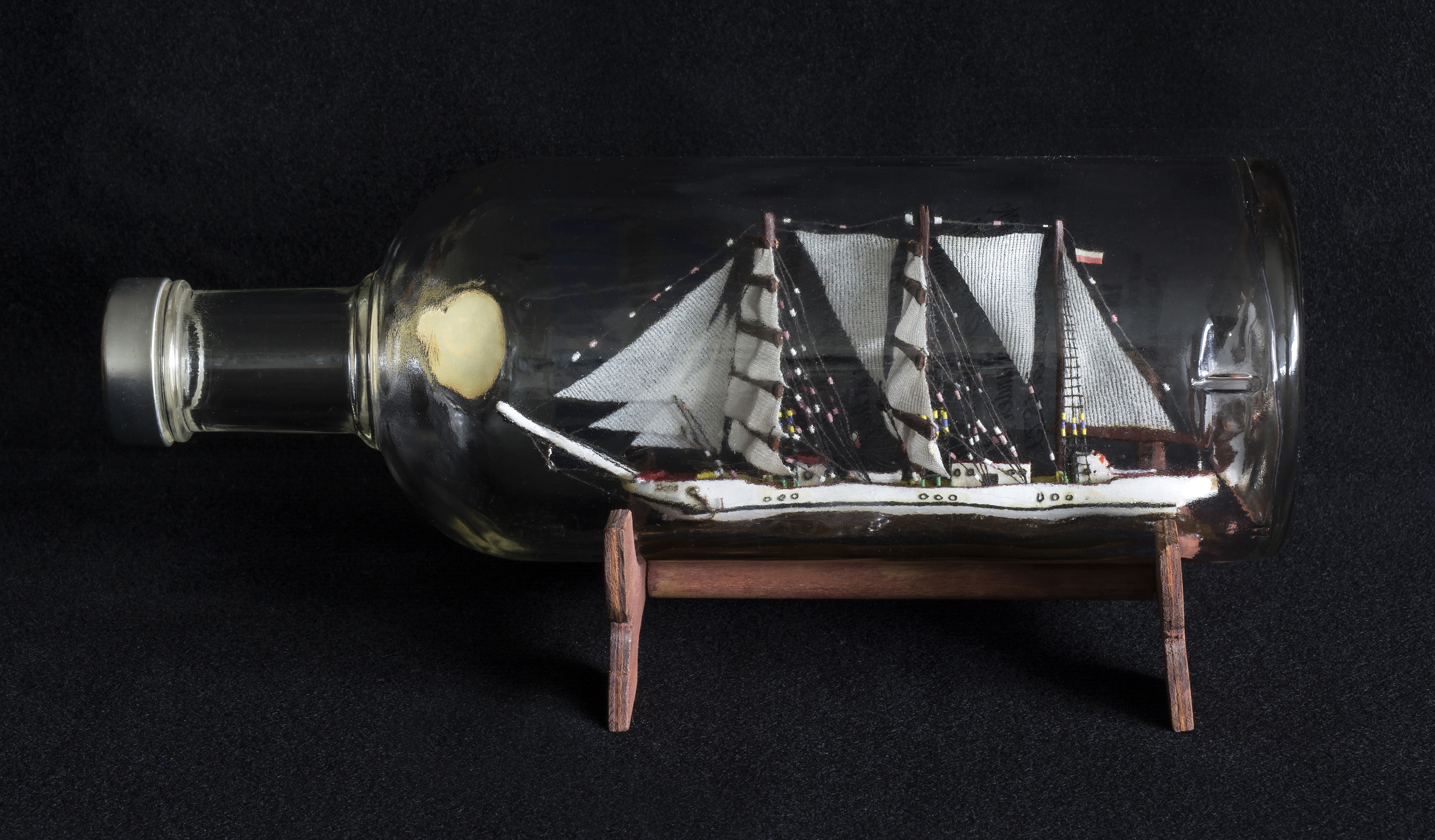 Ship in a bottle build by Waldemar Pabisek